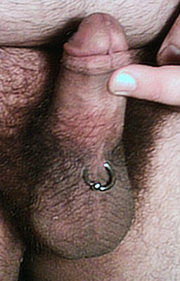 Lorum Piercing